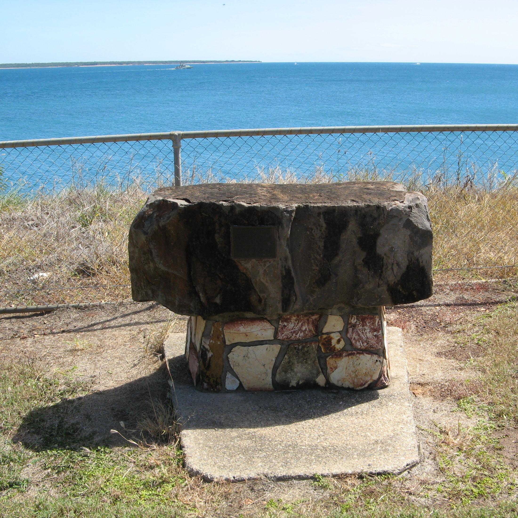 Open Air Chapel, Larrakeyah Barracks, Darwin, Northern Territory Plaque reads: Open Air Chapel This Altar and Chapel is dedicated to the glory of God, and in memory of all who served in Larrakeyah Barracks and sailed through these Barwin harbour heads to defence our beloved country and did not return. "The heavens are telling the glory of god, and his creation proclaims His handiwork." Psalm 19 - 1994 - See in background a Royal Australian Navy Armidale class patrol boat leaving Darwin Harbour. Resized and uploaded 2009-09-26